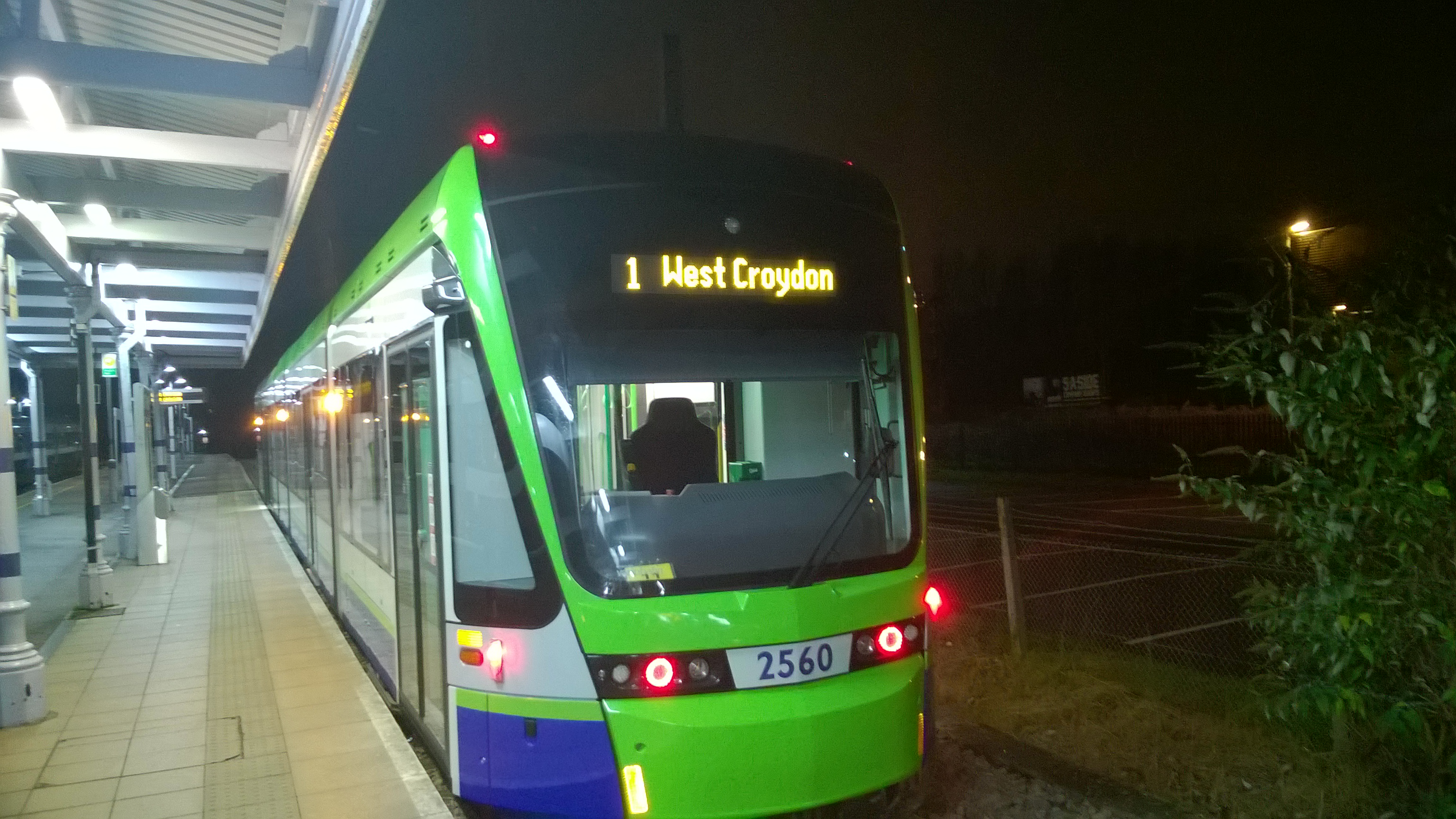 Tramlink tram 2560 at Elmers End station